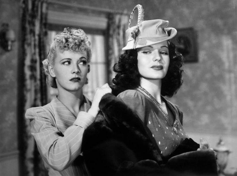 Promotional photograph for the 1940 film Blondie on a Budget, starring Penny Singleton (left) and Rita Hayworth